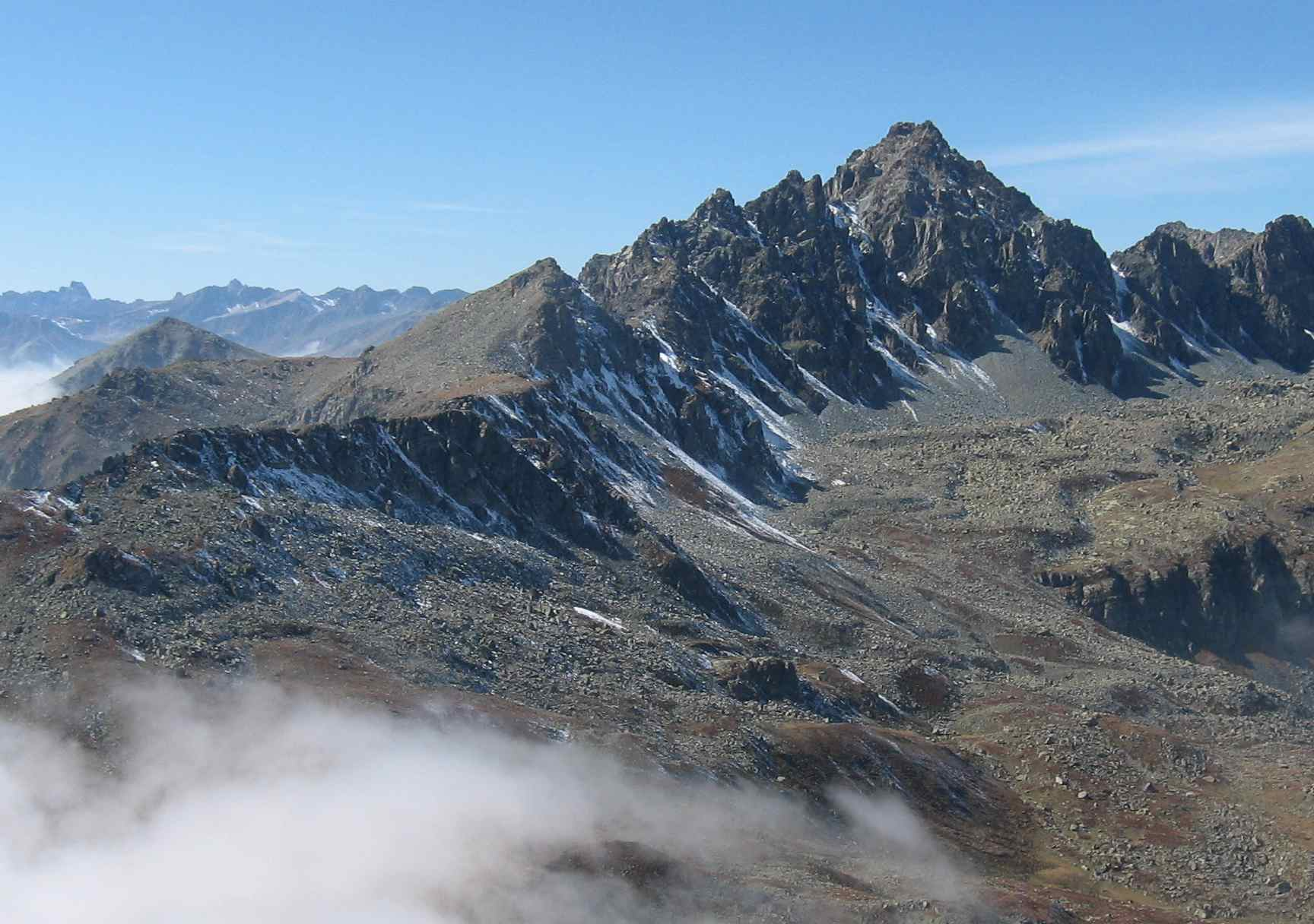 Cima delle Lobbie from Punta Rasciassa (CN, Italy)